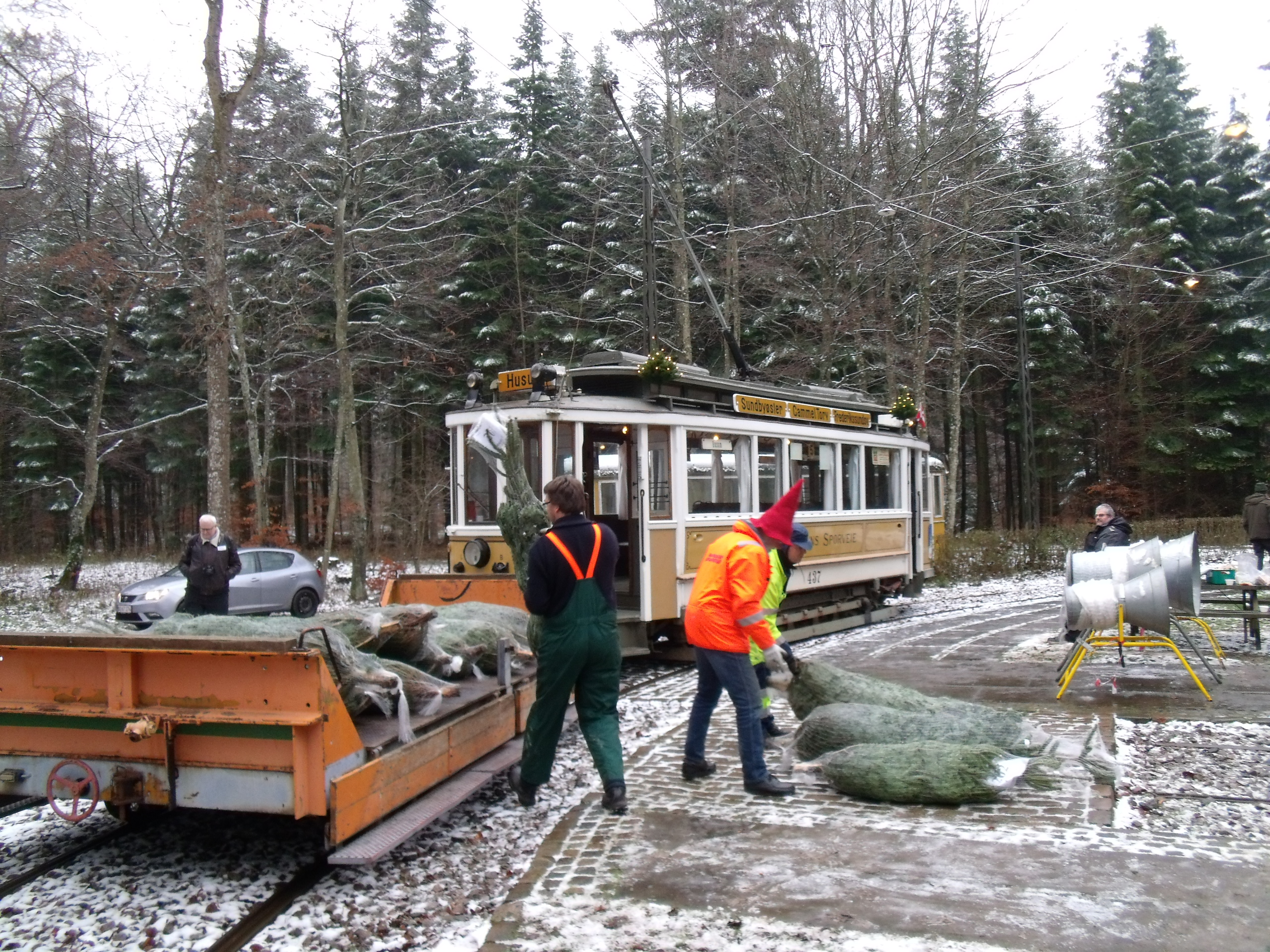 The tramway museum Sporvejsmuseet Skjoldenæsholm in Denmark open for Christmas. The Christmas trees which has been sold is loaded onto a wagon at Eilers Eg. The tram KS 437 of Copenhagen then draws the wagon to the museum.